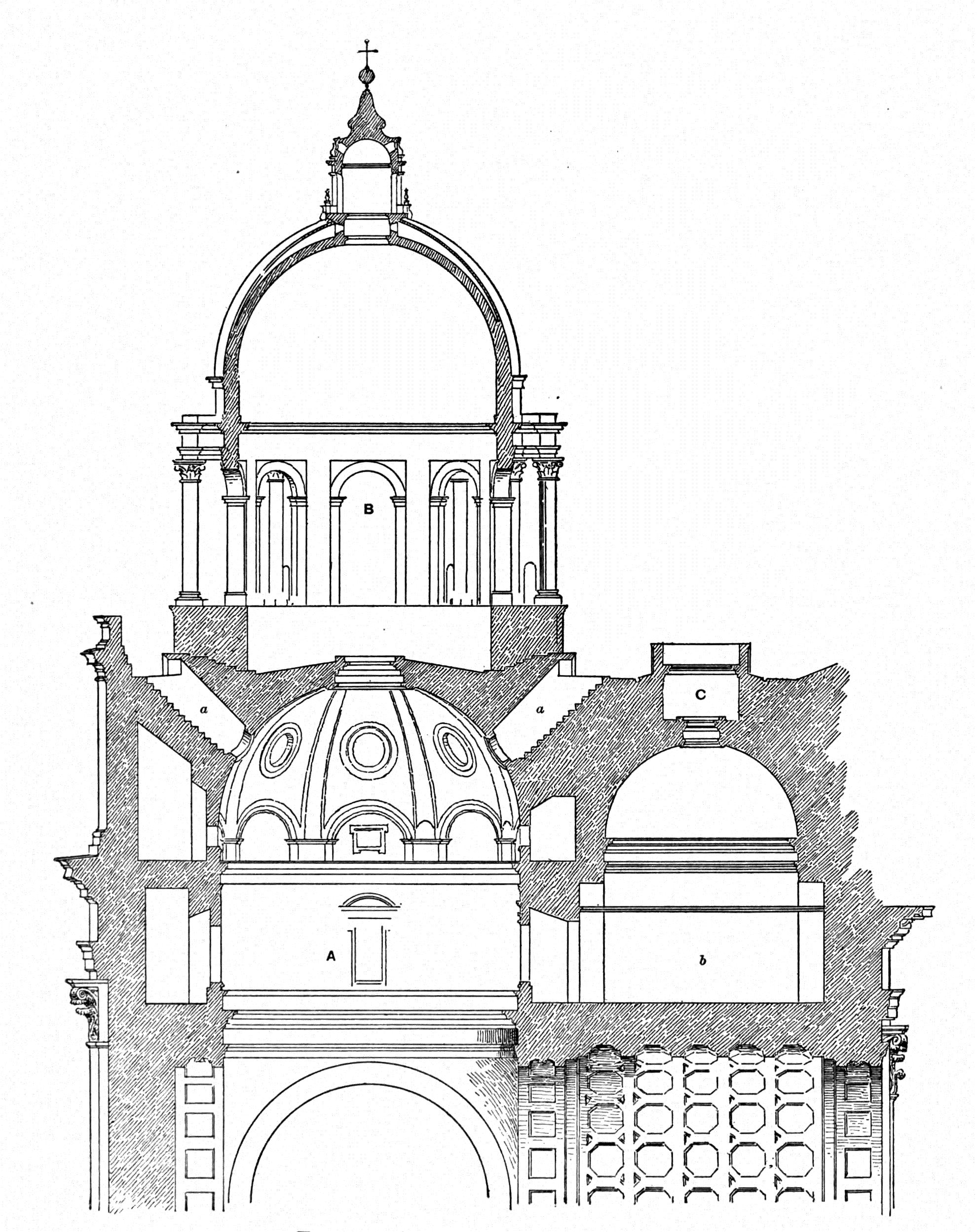 Scan from book 'Character of Renaissance Architecture'